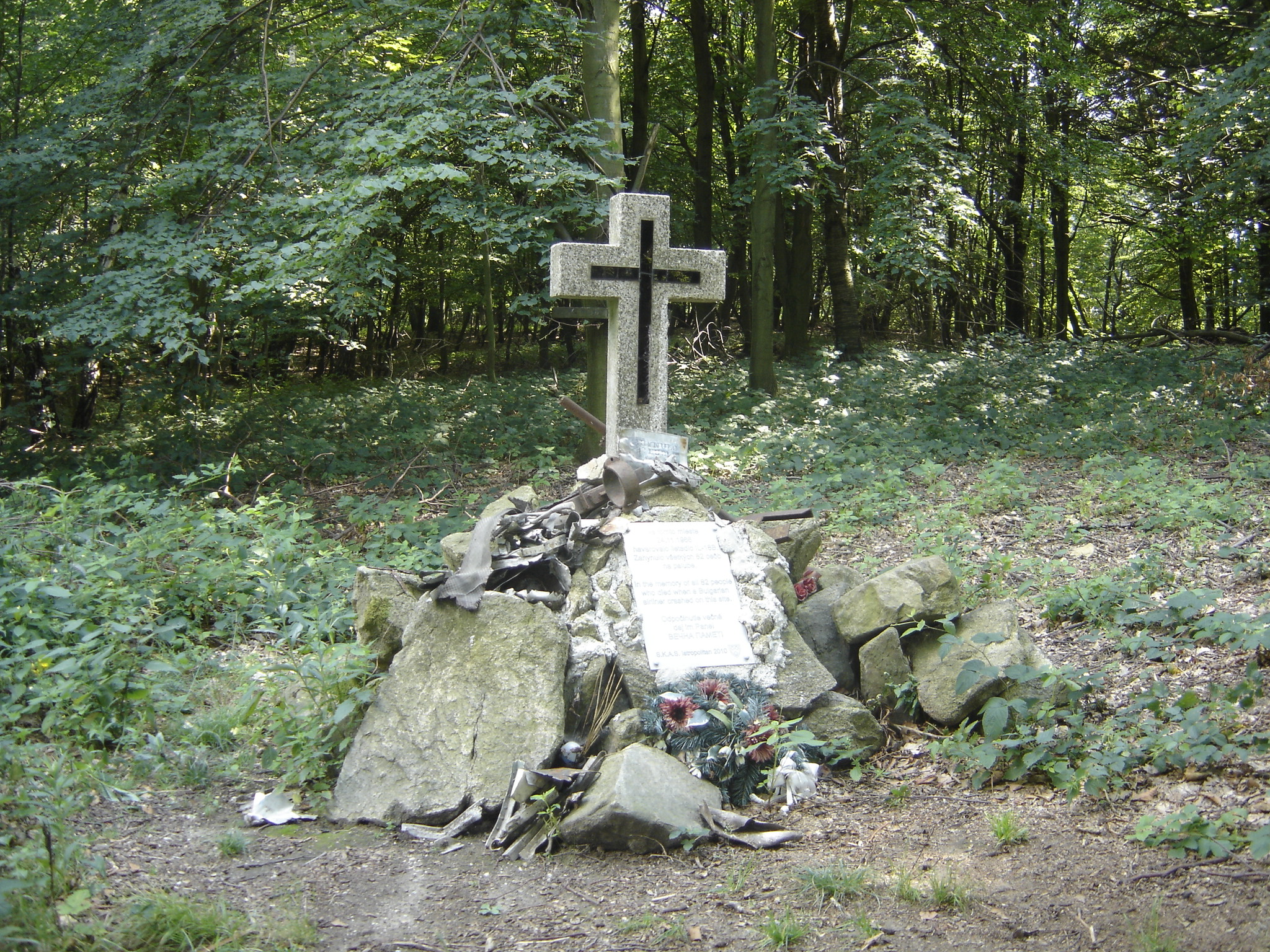 Sakrakopec - the site of the air crash (24/11/1966), Slovakia